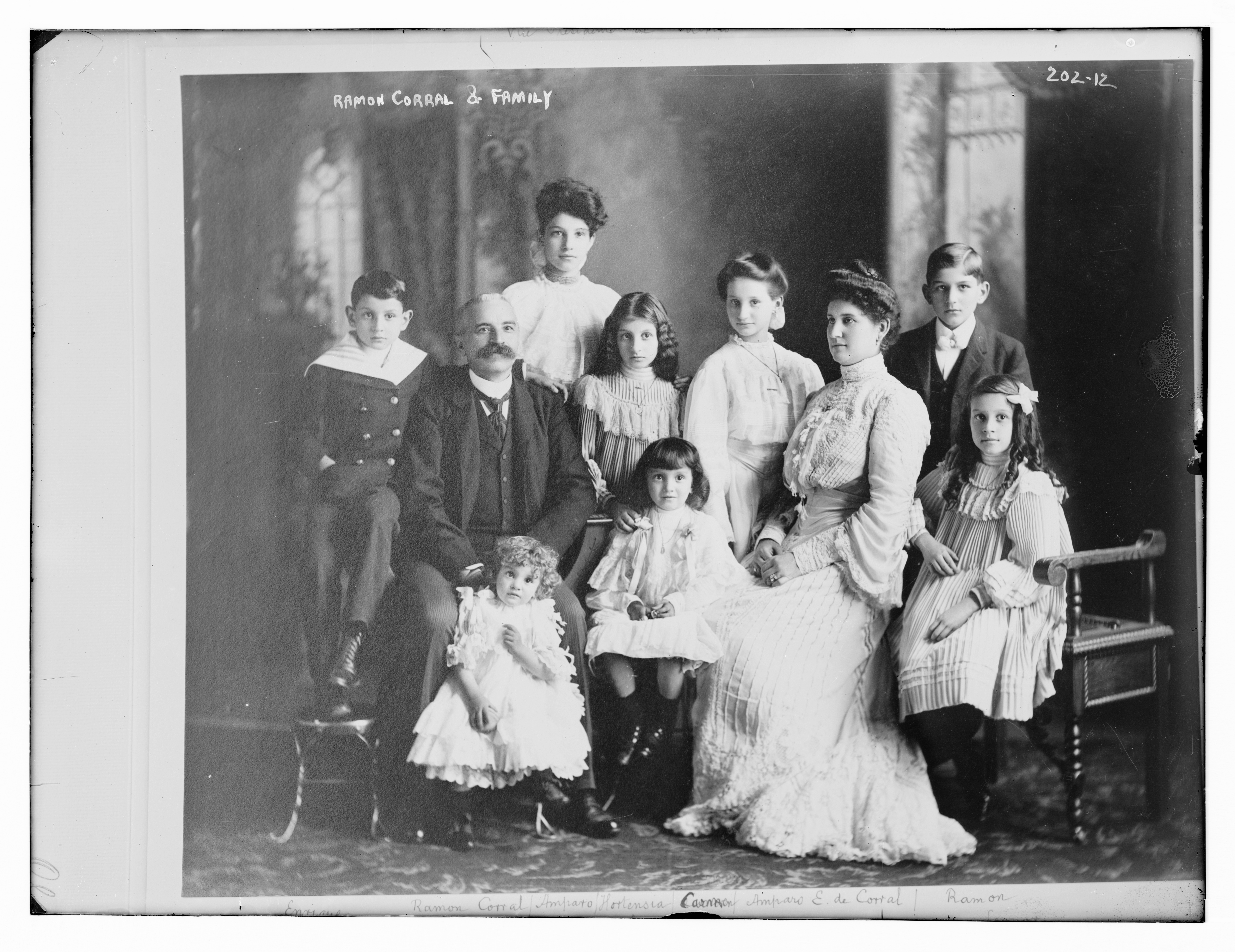 Ramon Corral and family